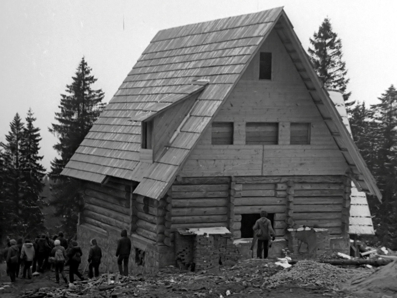 Lubań - Mountain Gorce - Poland